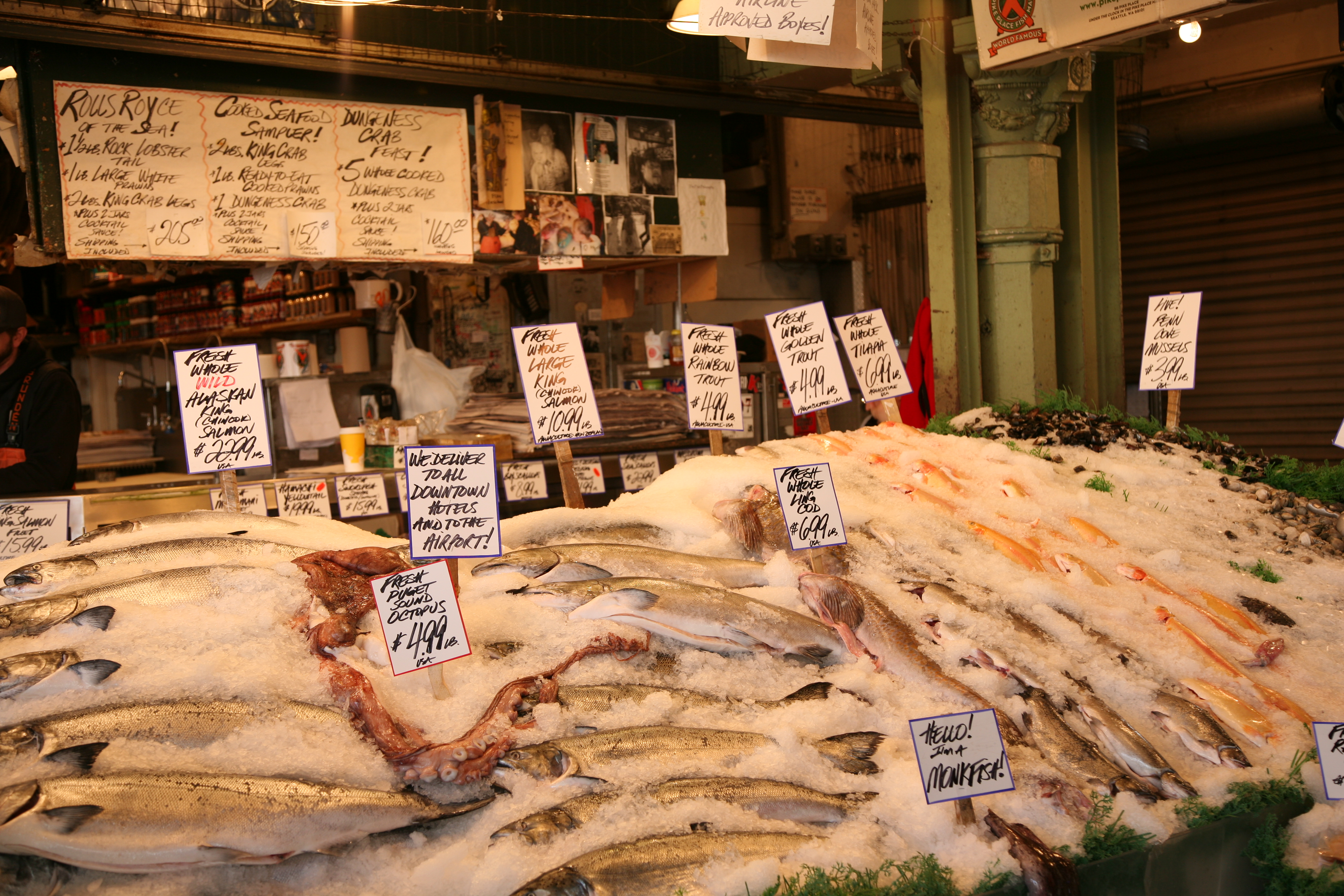 Fish on display at Pike Place Market, Seattle